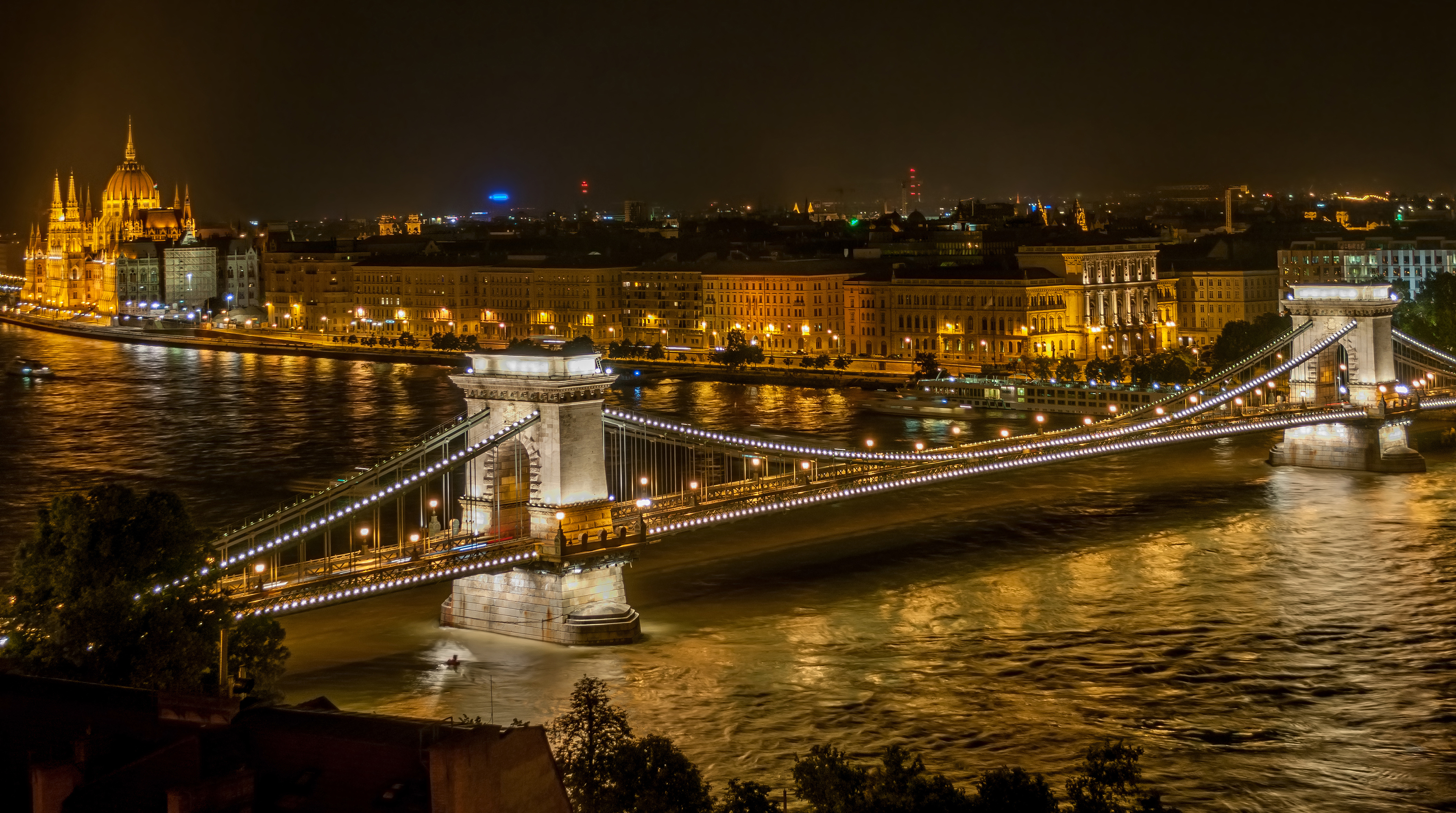 Night view of The Széchenyi Chain Bridge from Buda Castle in Budapest, Hungary